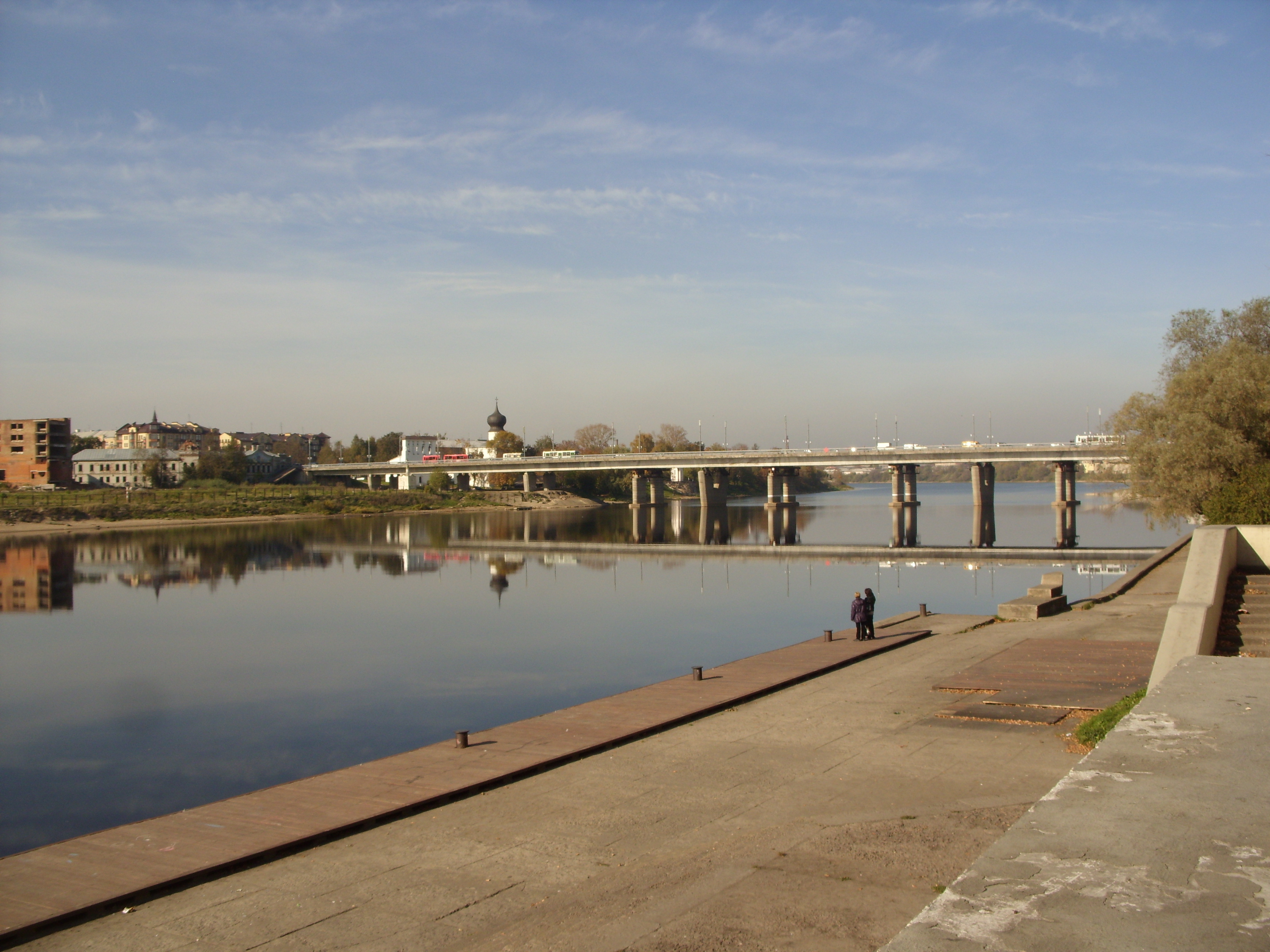 Olginskyi most_okt2010